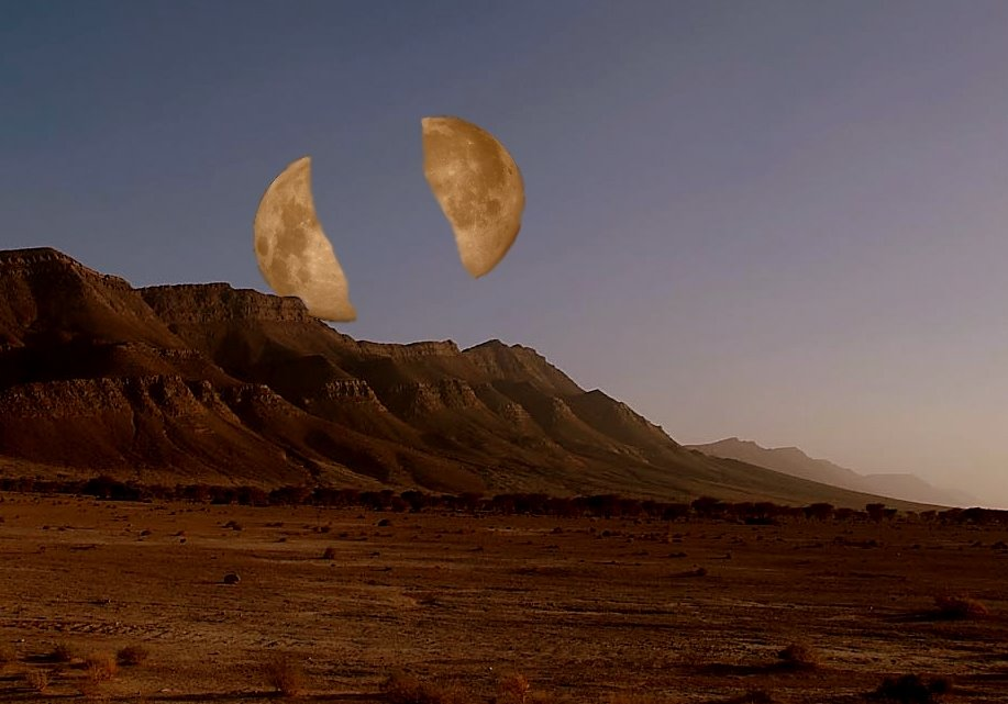 Artistic impression of moon splitting by God after a prayer of the Islamic Prophet (link)